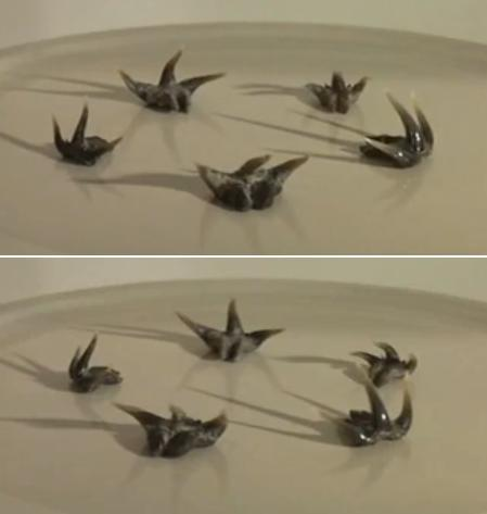 Chlamydoselachus lawleyi teeth